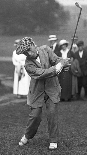 6/16/1915-Baltsrol Golf Club, Short Hills, NJ: Ben Sayers, June 16, 1915, American Open at Short Hills.